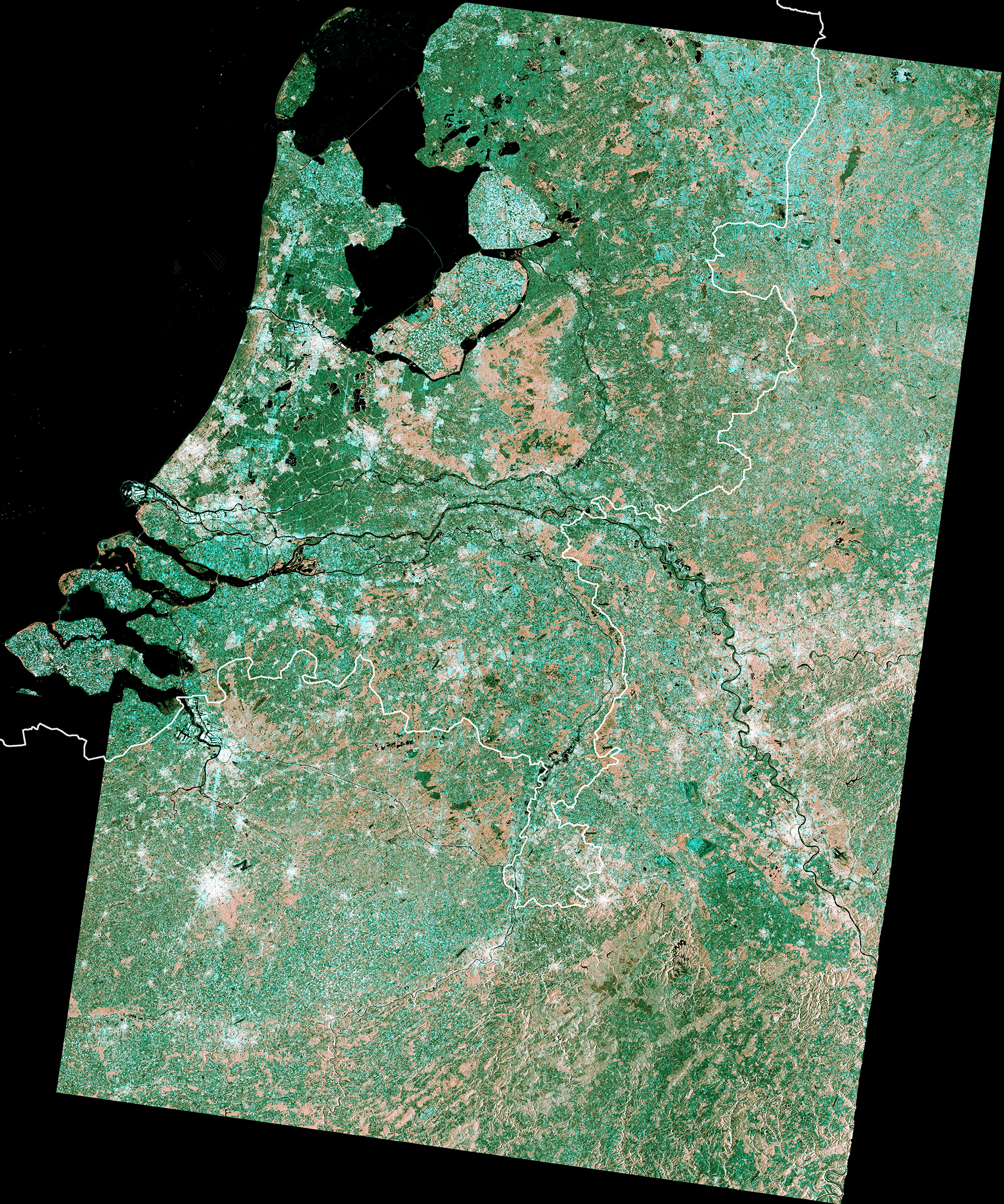 This image is a mosaic based on Sentinel-1A satellite coverage of the Netherlands in three scans during March 2015.